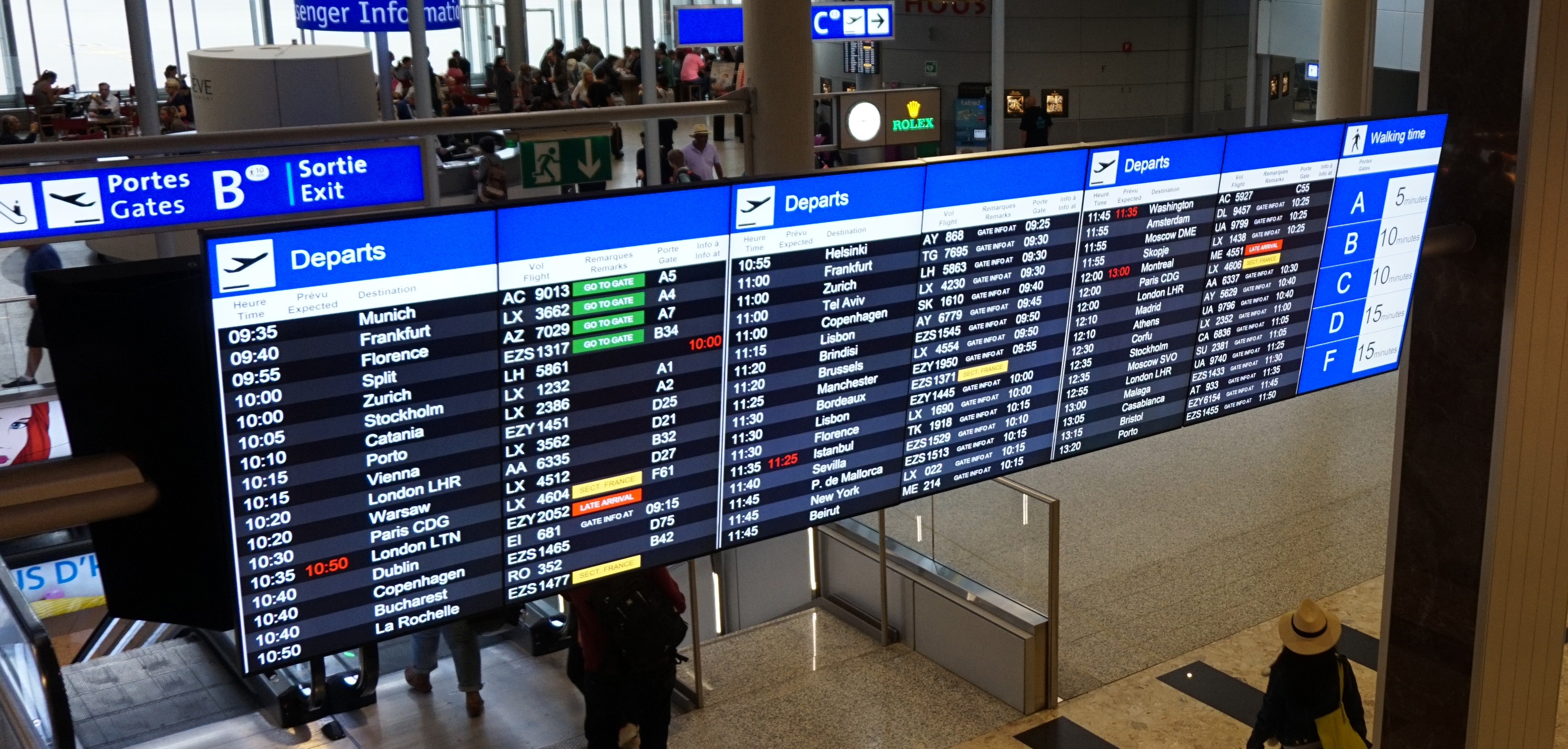 Departure schedule in Geneva airport.This photograph was taken with a Sony ILCE-5000